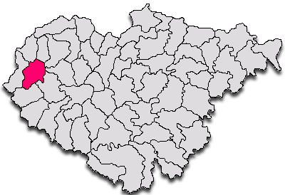 Map Salaj County Romania